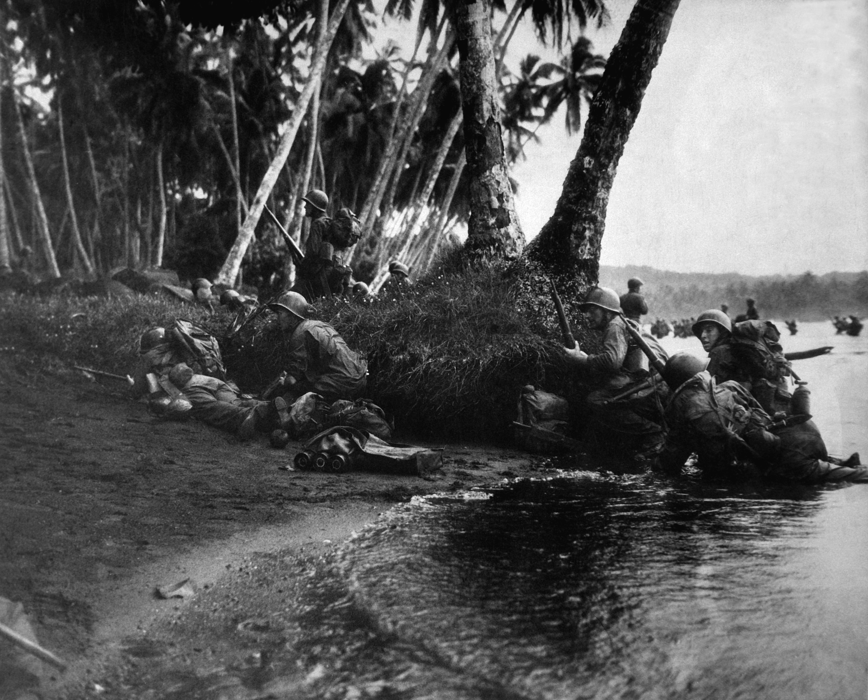 Landing operations on Redova Island, Solomon Islands, 30 June 1943. Attacking at the break of day in a heavy rainstorm, the first Americans ashore huddle behind tree trunks and any other cover they can find. ID #HD-SN-99-02835